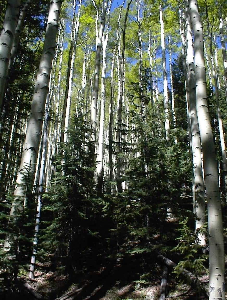 Image title: Aspen trees grove Image from Public domain images website